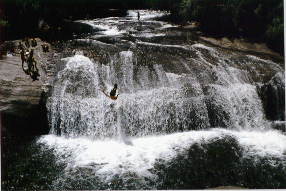 Swimmers doing flips on Turtleback Falls, Horsepasture River.